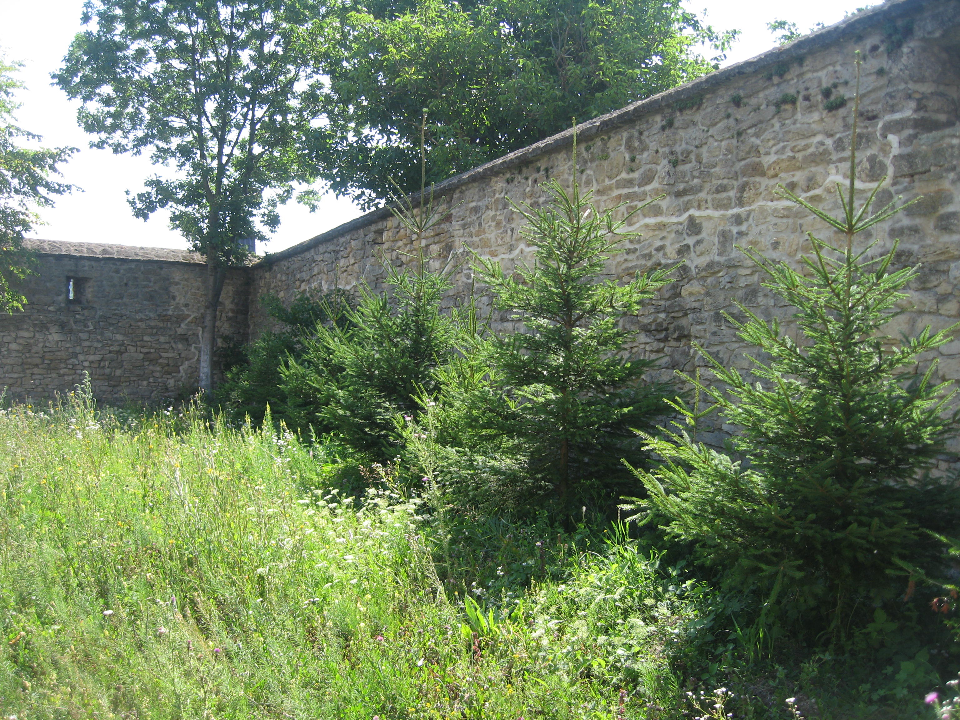 Mănăstirea Dobrovăţ